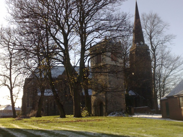 St Lawrence Parish Church, York, in snow - taken for the parish website a few years ago.